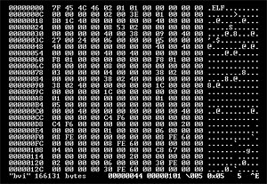 Screenshot of the bvi hex editor